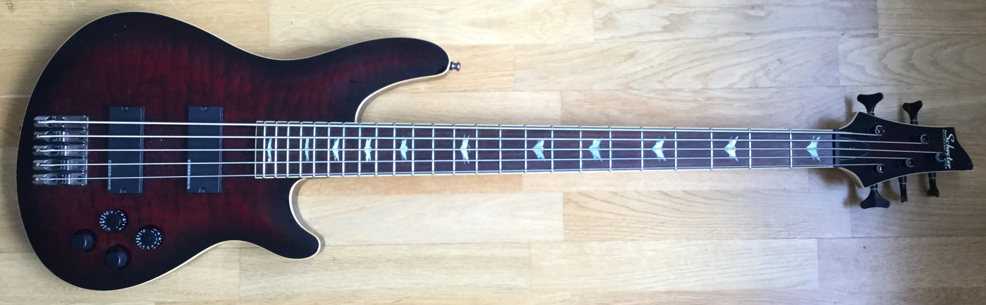 A Schecter C5 Bass (2006)